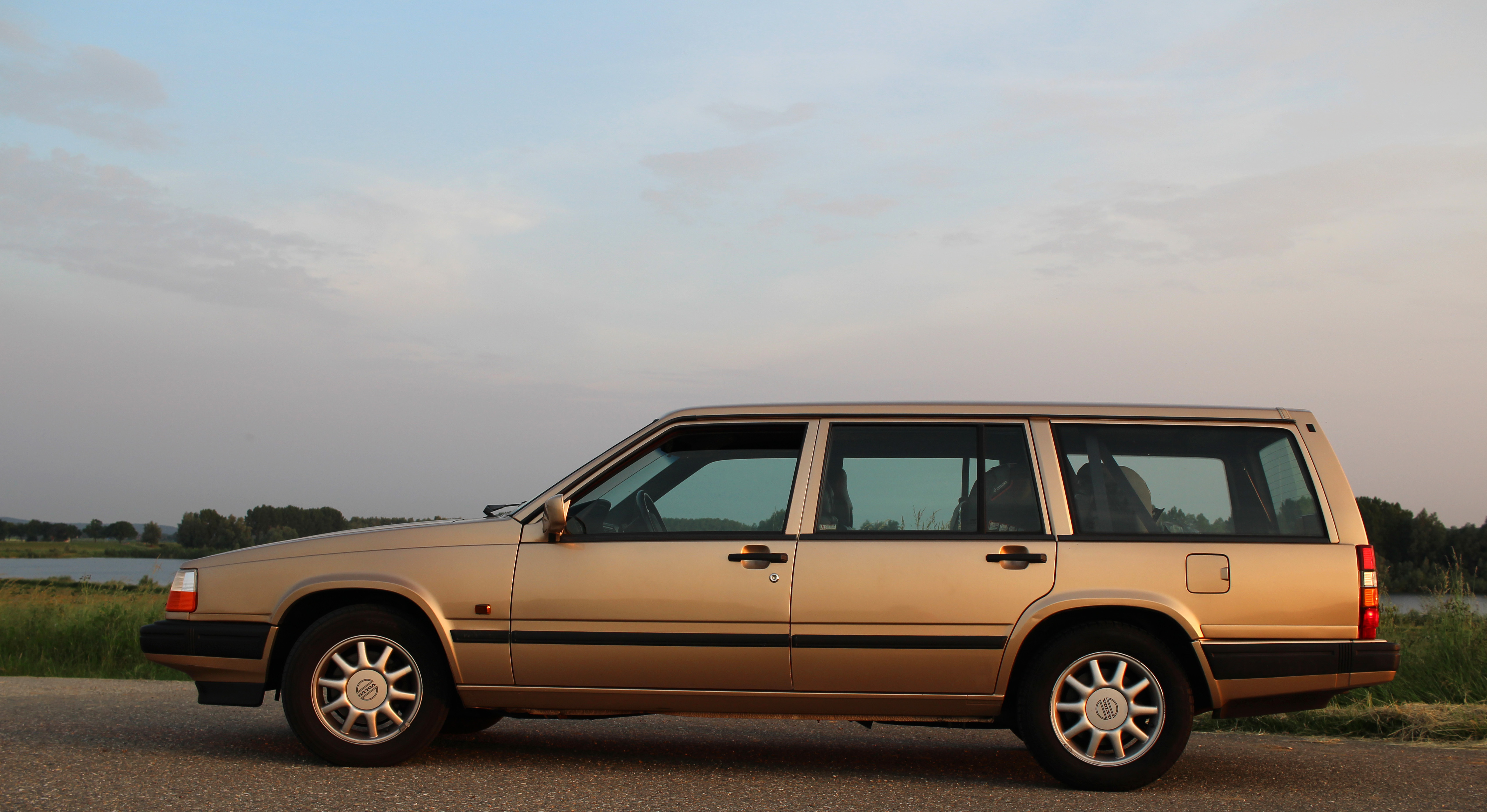 Volvo 940 estate, 1997 model, champagne / gold paint